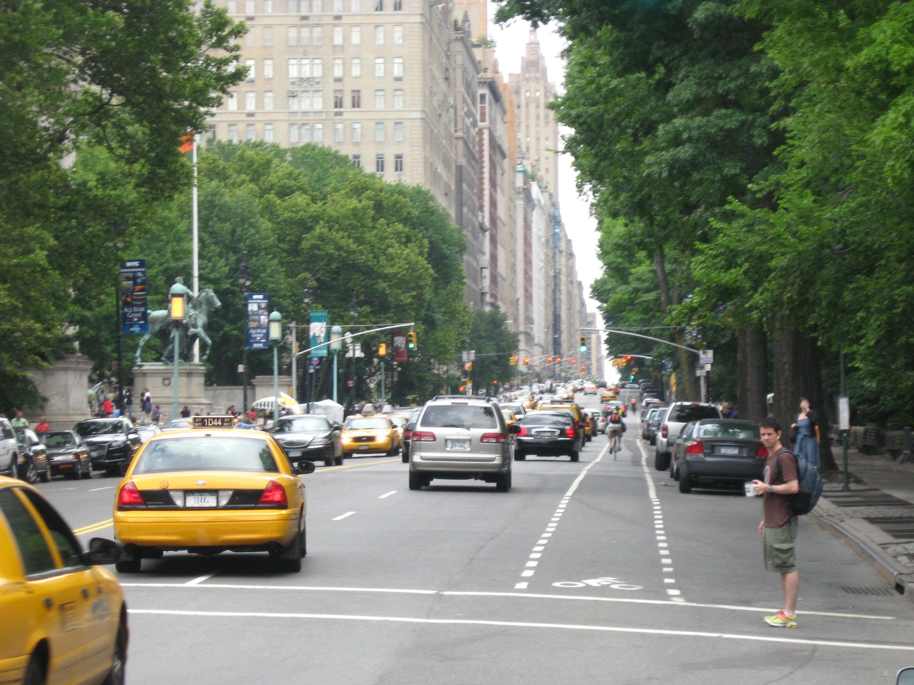 Looking north past AMNH along Central Park West.